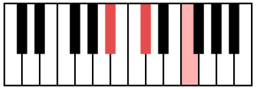 b-flat minor chord